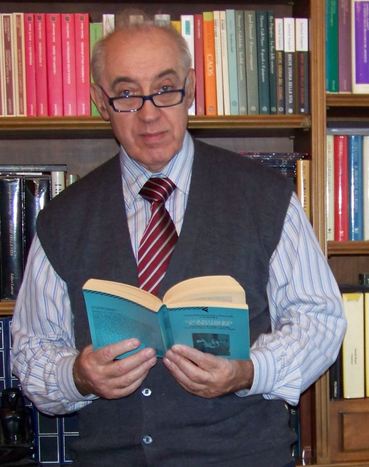 Self portrait of Libero Sosio, italian translator. On the background, some of his translations